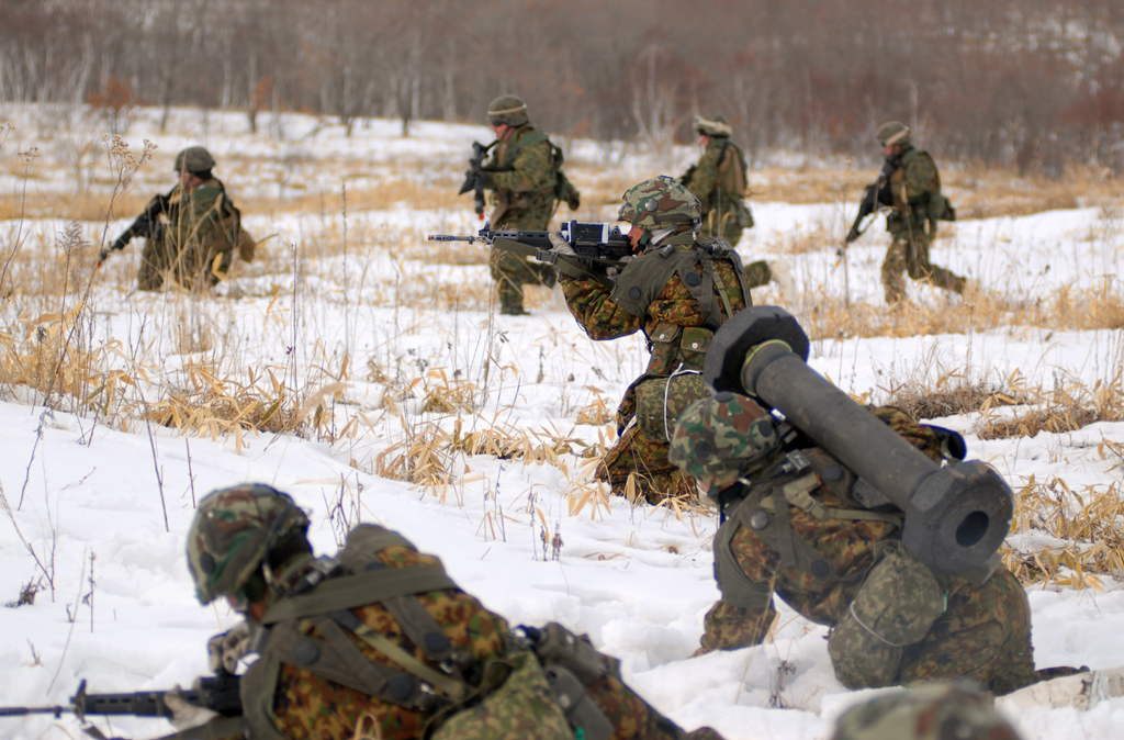 Japan Ground Self Defense Force soldiers fight alongside Marines of Combat Assault Battalion, 3rd Marine Division in simulated combat using laser detection gear March 7 at the Yausubetsu Maneuver Area, Hokkaido, Japan. The Marines and soldiers conducted squad- and platoon-sized combat training March 7-8. (Photo by Lance Cpl. David Rogers).